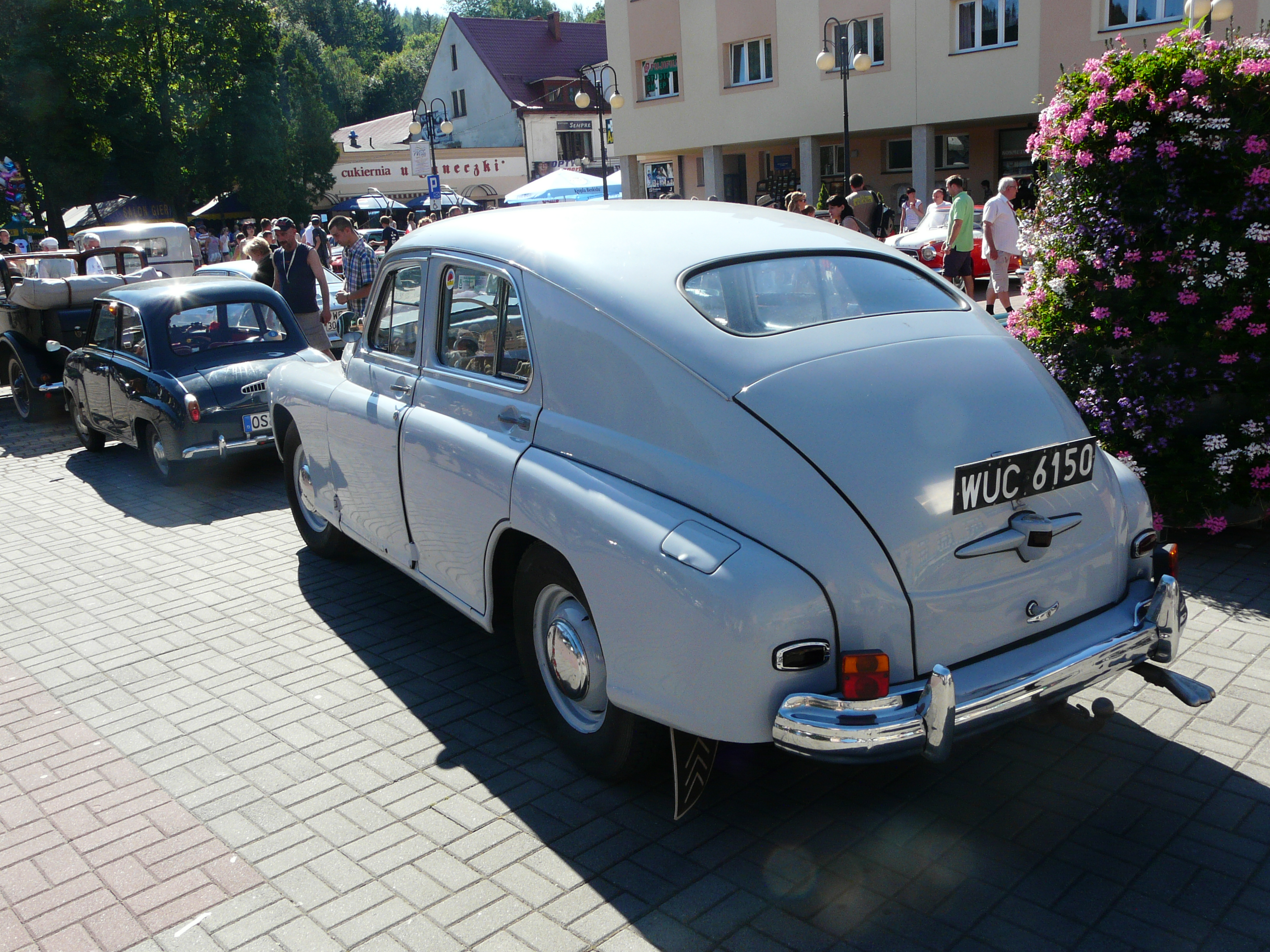 Old car exhibition. Wisa, Poland, 10 July 2010.